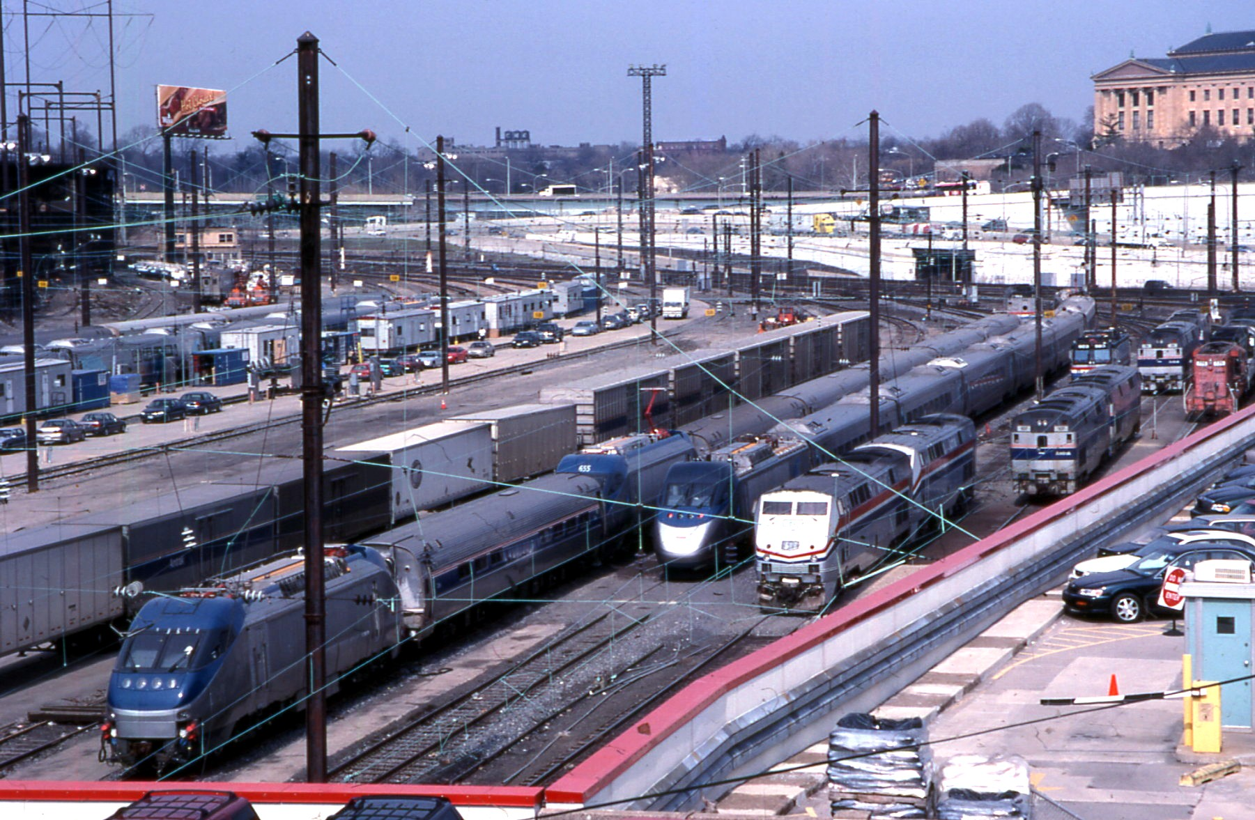 The Race Street Yard in Philadelphia, Pennsylvania, just outside 30th Street Station. From left to right: express boxcars, several HHP-8 locomotives with Amfleet coaches, a then-new Acela Express trainset, and several GE Genesis diesel locomotives. At back right is an AEM-7.